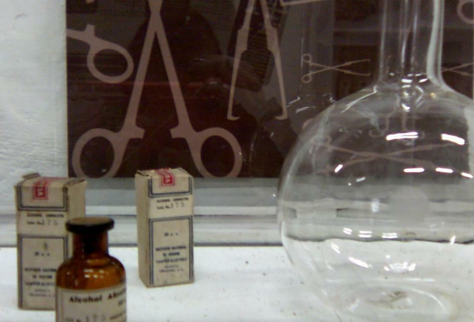 muestra del museo de criminalistica UN